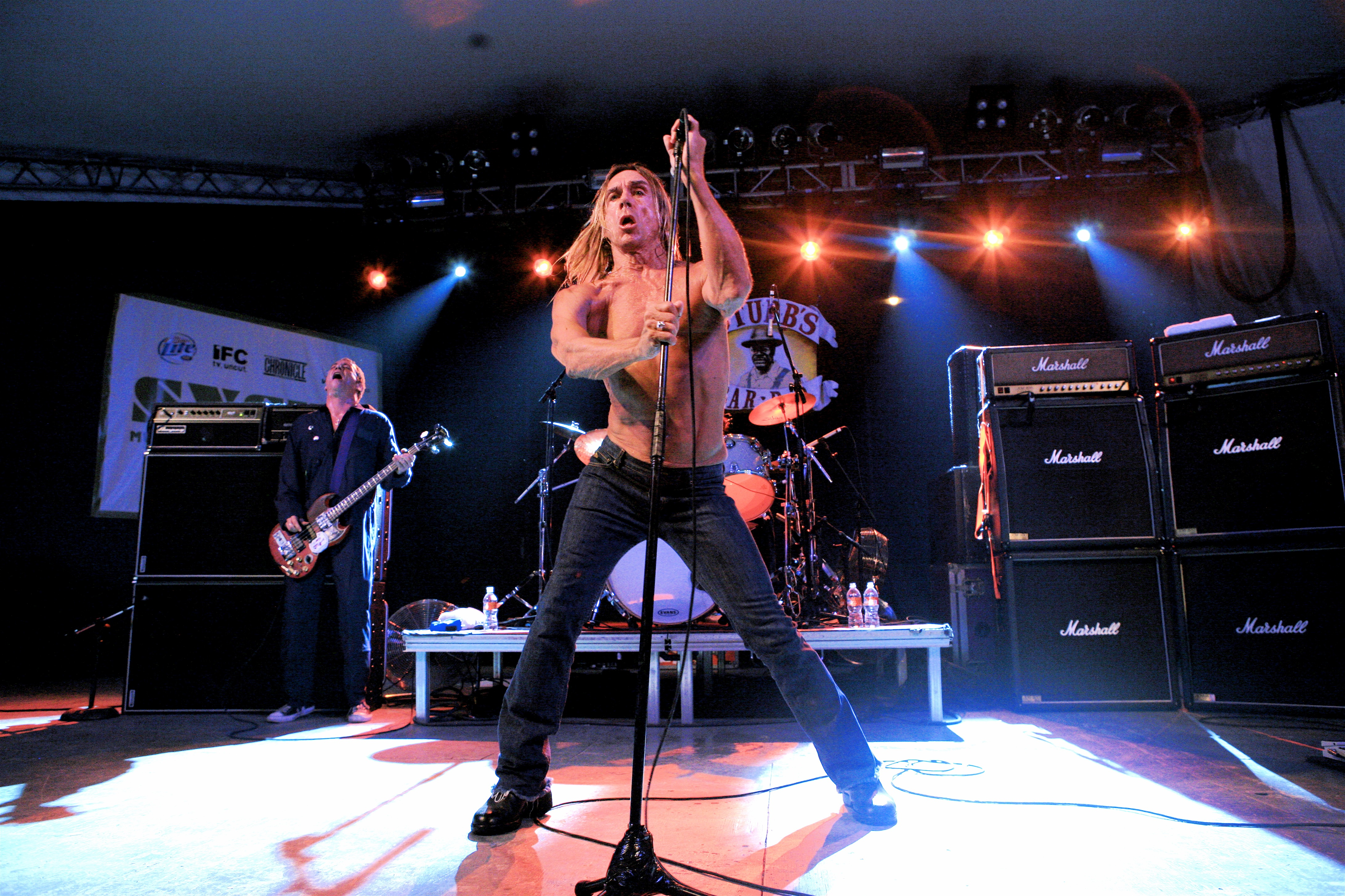 Iggy Pop performing at South by Southwest in 2007. Image shot by Kris Krug.